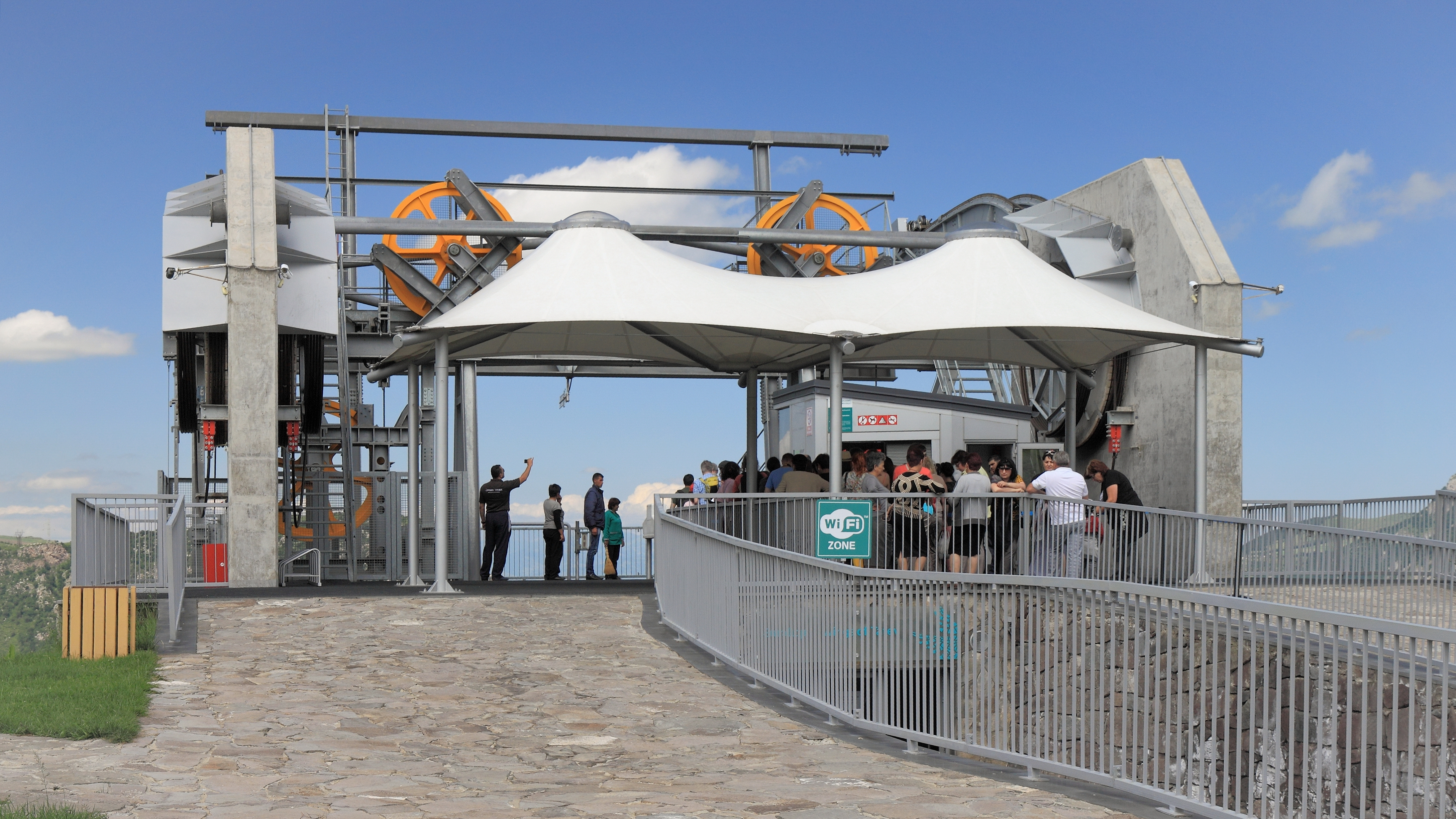 Upper station "Tatev". Wings of Tatev. Syunik Province, Armenia.